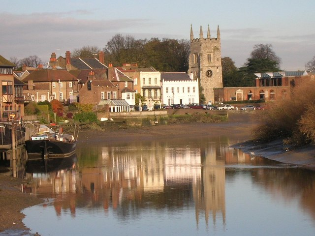 Isleworth waterfront View from the Town Wharf pub